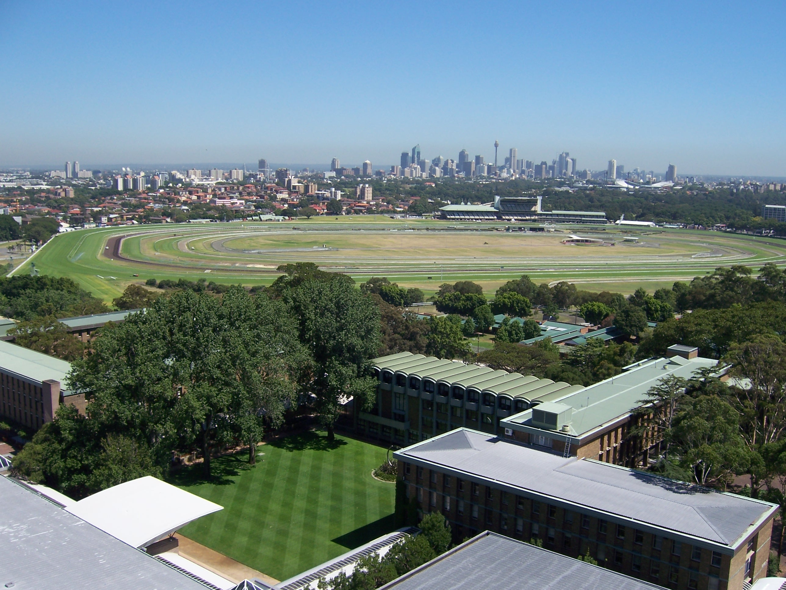 UNSW library lawn in foreground, Randwick Racecourse in middleground, Sydney skyline in background